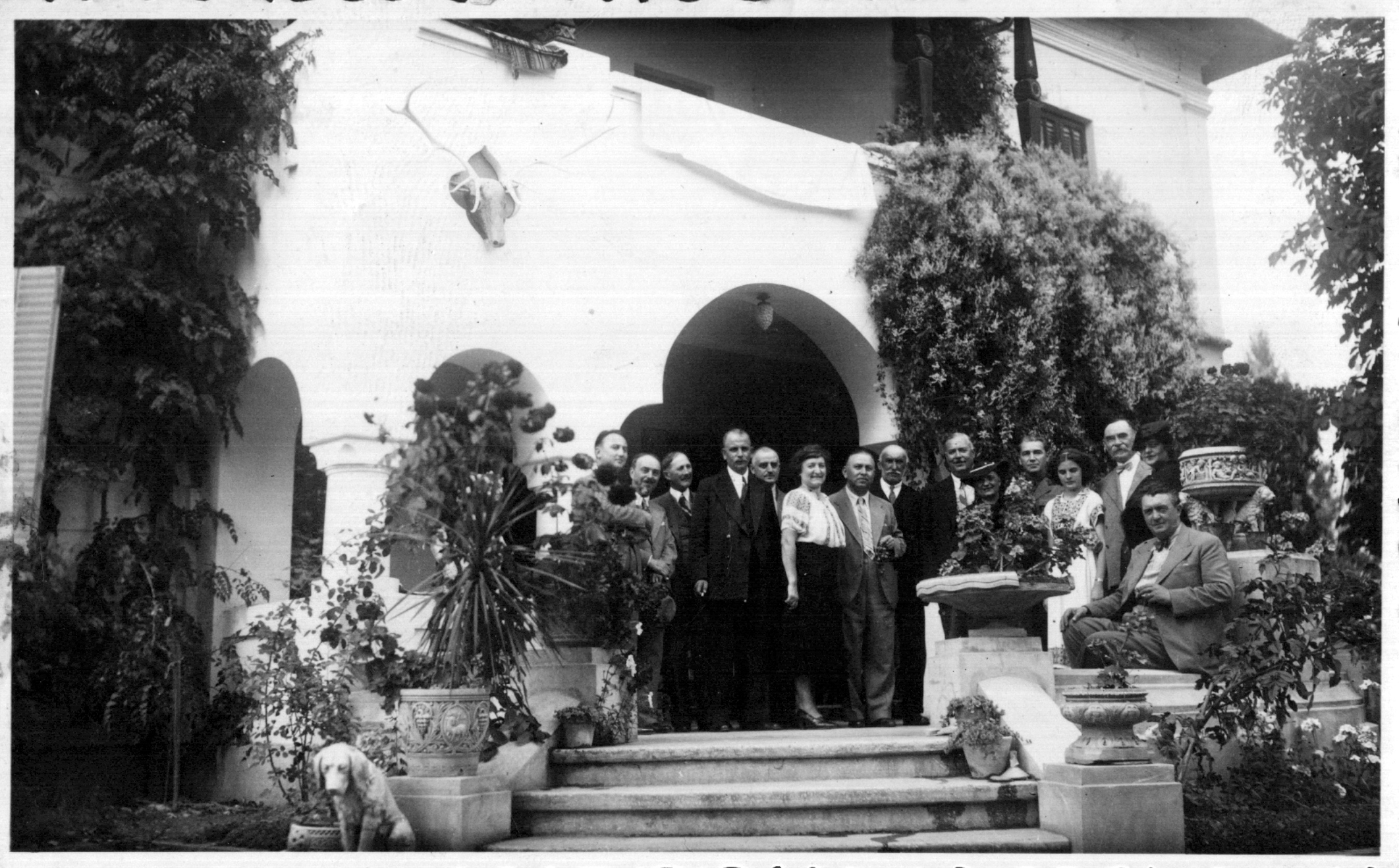 Manor of Toma T. Socolescu in Pauleşti, Judeţul Prahova, Romania. This building has not been created by Toma T. Socolescu. It is today (20/10/2009) the property of the Toma T. Socolescu family We are the only heirs and descendants of Toma T. Socolescu (died in 1960 in Bucharest) and therefore owner of all his intellectual rights.